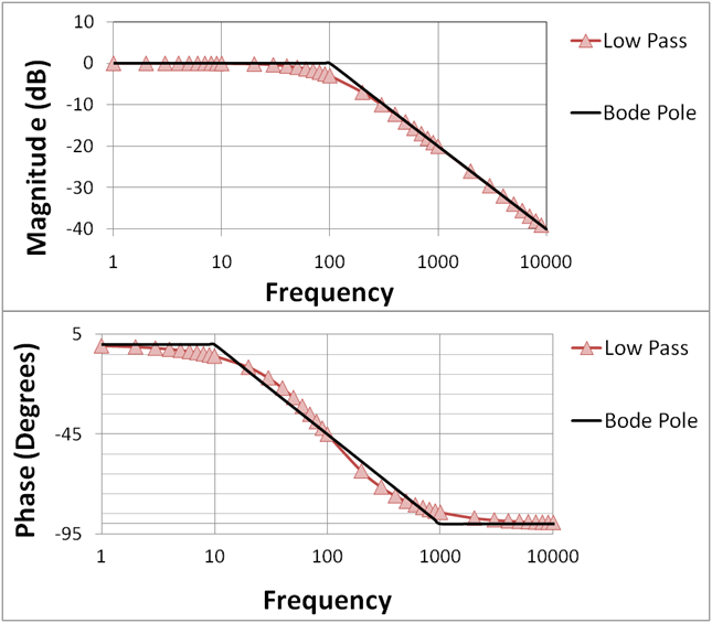 Bode plots for low-pass filter